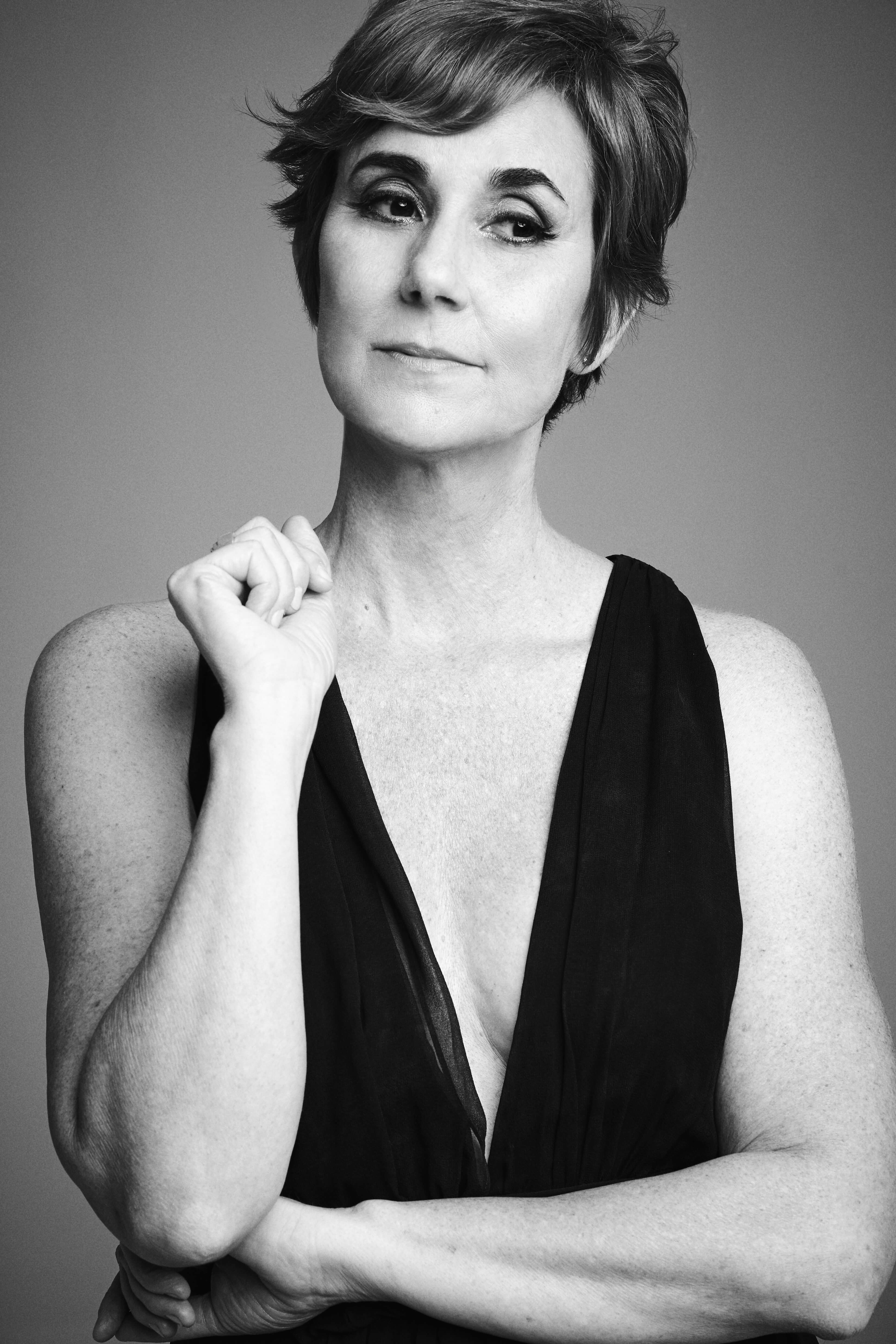 Photo of Anne Marie Cummings taken by Matt Kallish, Los Angeles, 2020.